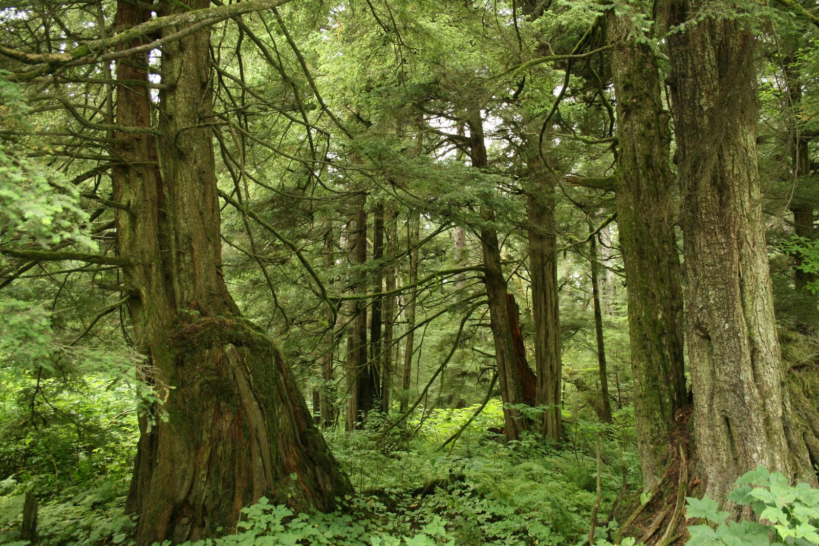 Tsuga heterophylla forest, Sitka National Historic Park, Alaska